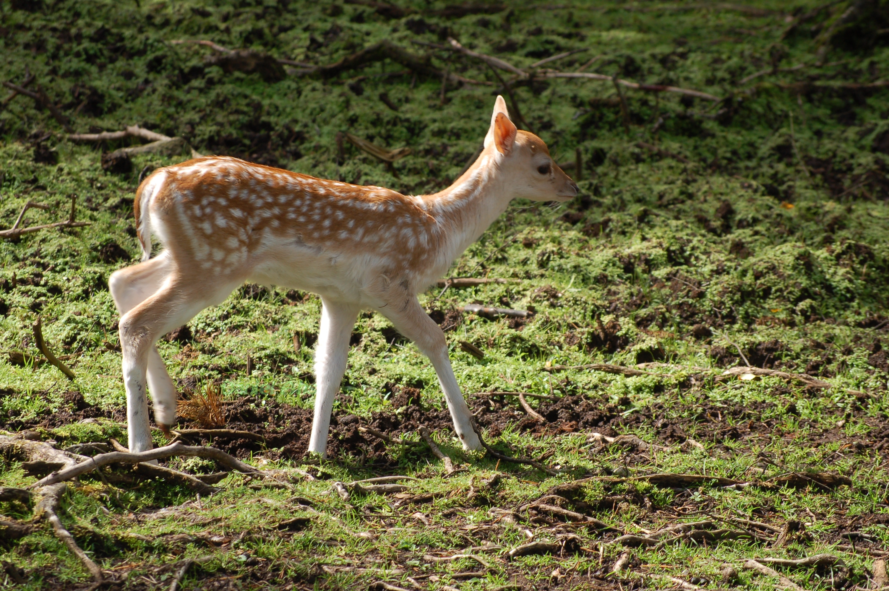 A baby Fallow Deer on Borås Djurpark